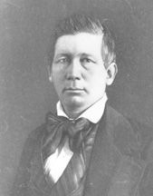 Portrait of Senator Edward Hannegan of Indiana